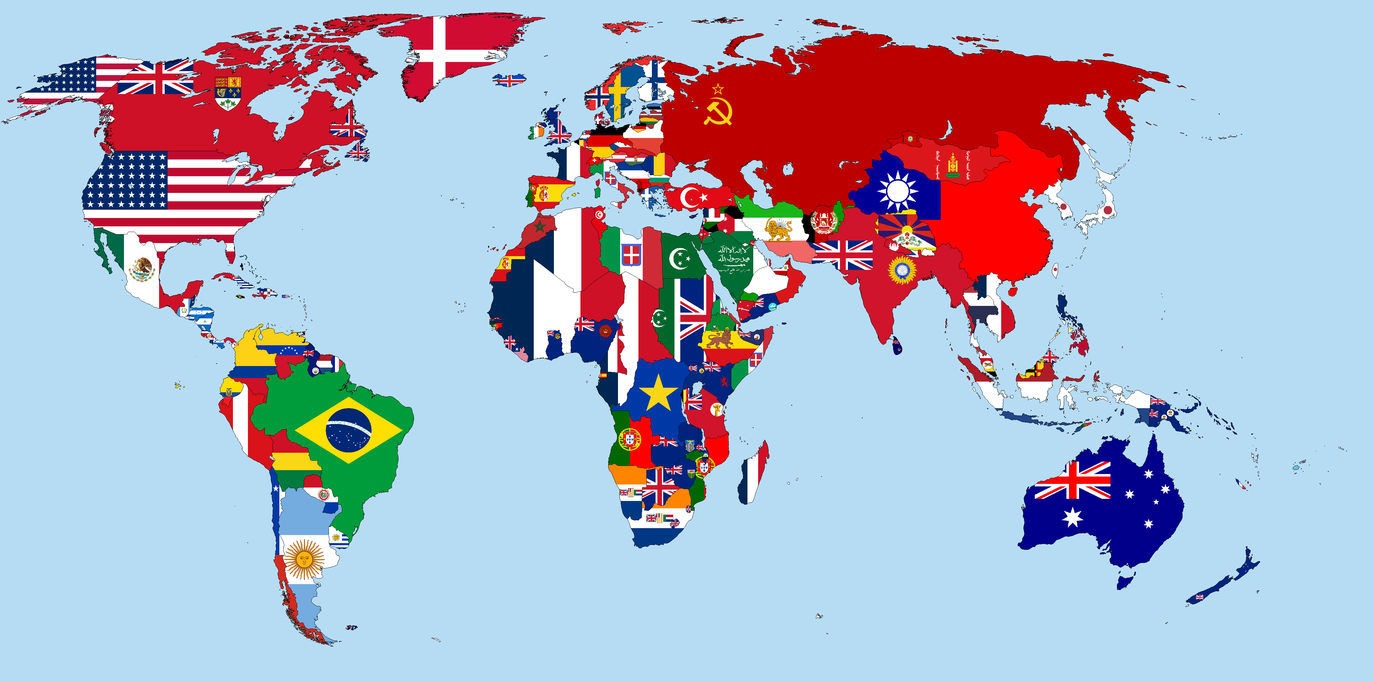 1930 Flags map Flag maps of the world for historical use 1789 · 1900 · 1908 · 1914 · 1930 · 1935 · 1938 · 1942 · 1965 · 1970 · 1972 · 1974 · 1989 · 1990 · 1991 · 1992 · 1993 · 2010 · 2012 · 2013 · 2015 · 2016 · 2017 · 2018 (this template: • view • discuss )